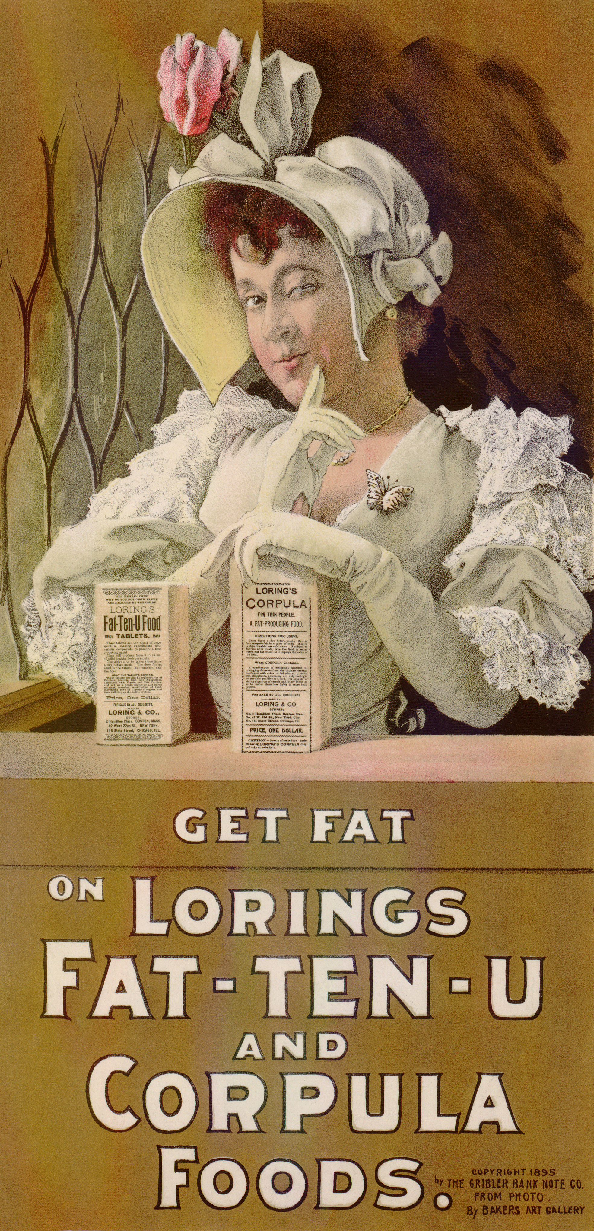 "Get fat on Lorings Fat-ten-u and corpula foods"; "Advertisement showing young woman with package of Loring's Fat-Ten-U food tablets and package of Loring's Corpula, a fat-producting food." Color lithograph